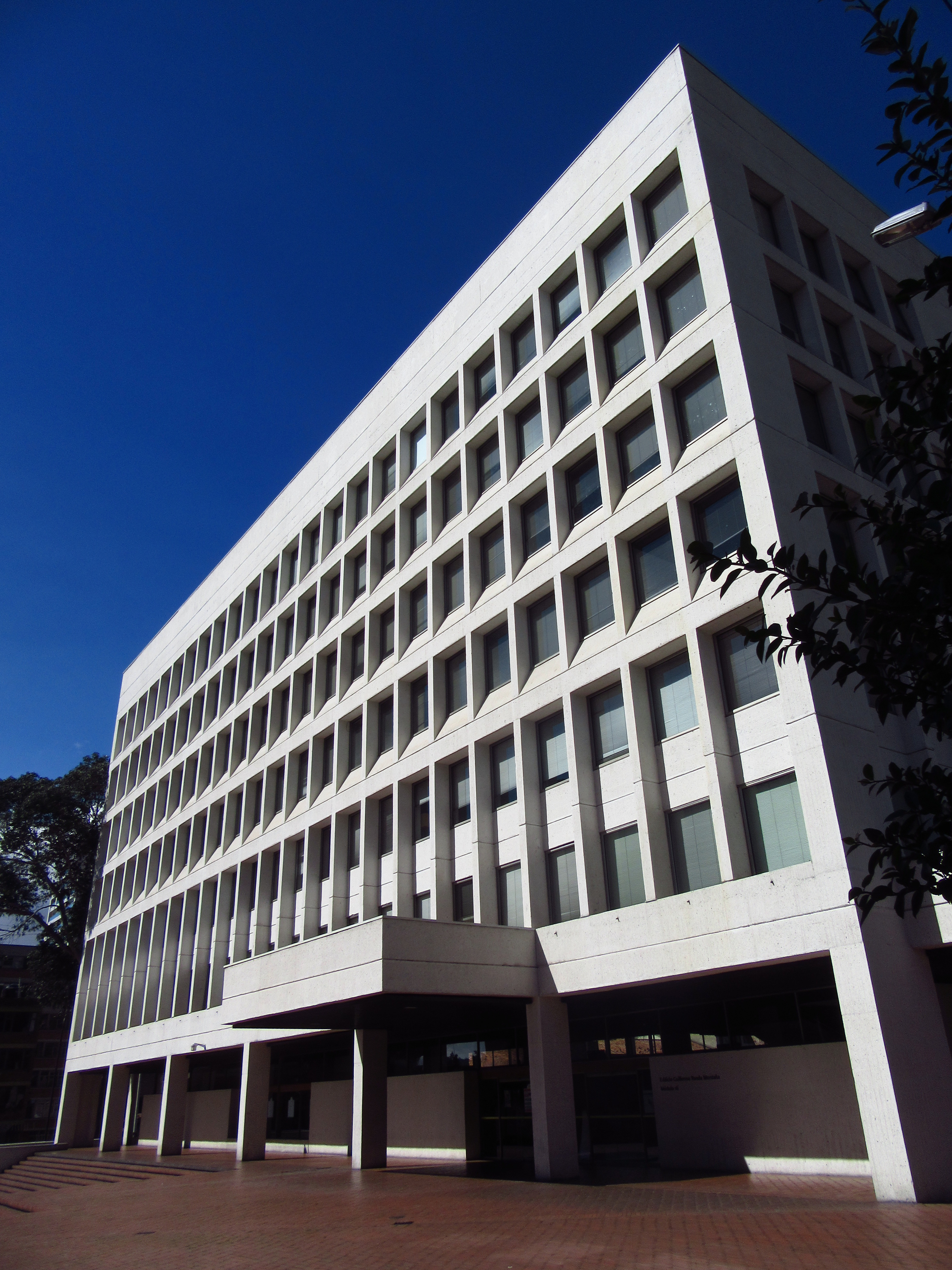 Bogotá